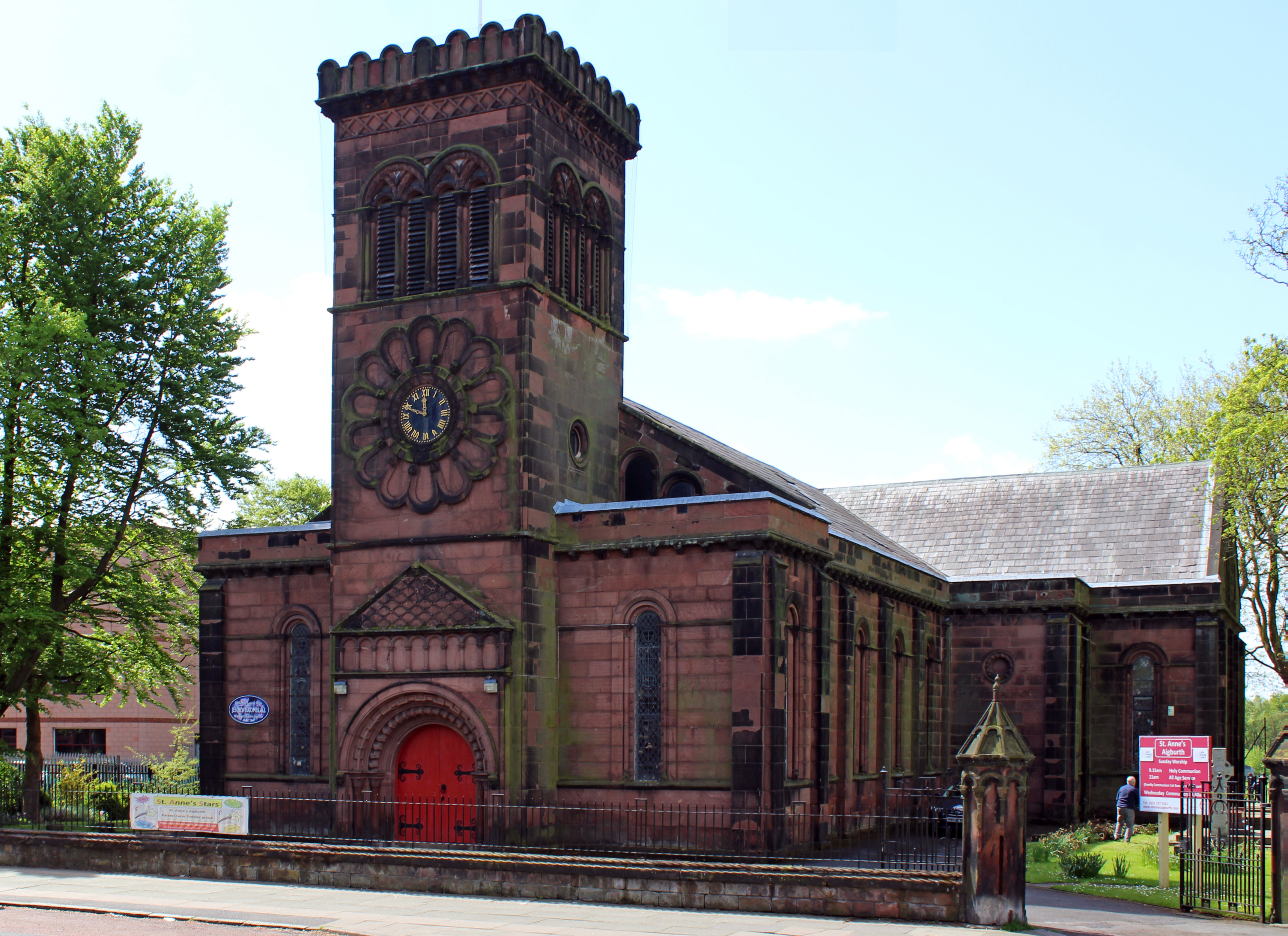 Frontage from across Aigburth Road- from north